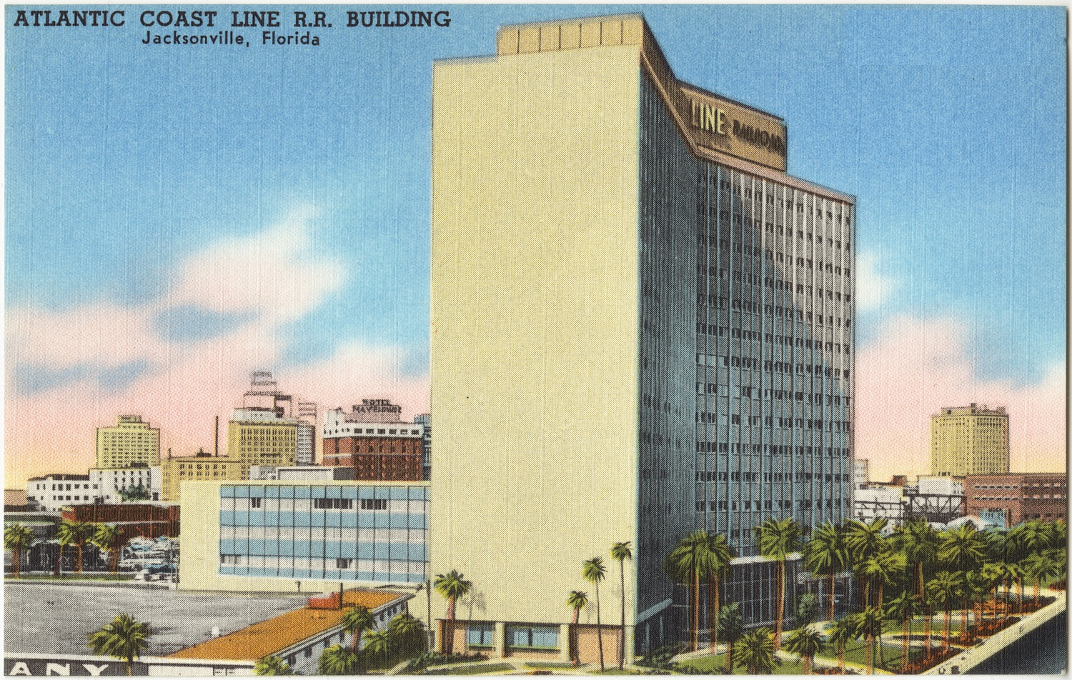 File name: 06_10_006848 Title: Atlantic Coast Line R.R. Building, Jacksonville, Florida Date issued: after 1960 Physical description: 1 print (postcard) : linen texture, color ; 3 1/2 x 5 1/2 in. Genre: Postcards Notes: Title from item. Collection: The Tichnor Brothers Collection Location: Boston Public Library, Print Department Rights: No known restrictions